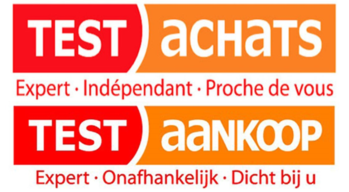 Logo Test-Achats / Test-Aankoop, a Belgian consumer protection organisation.